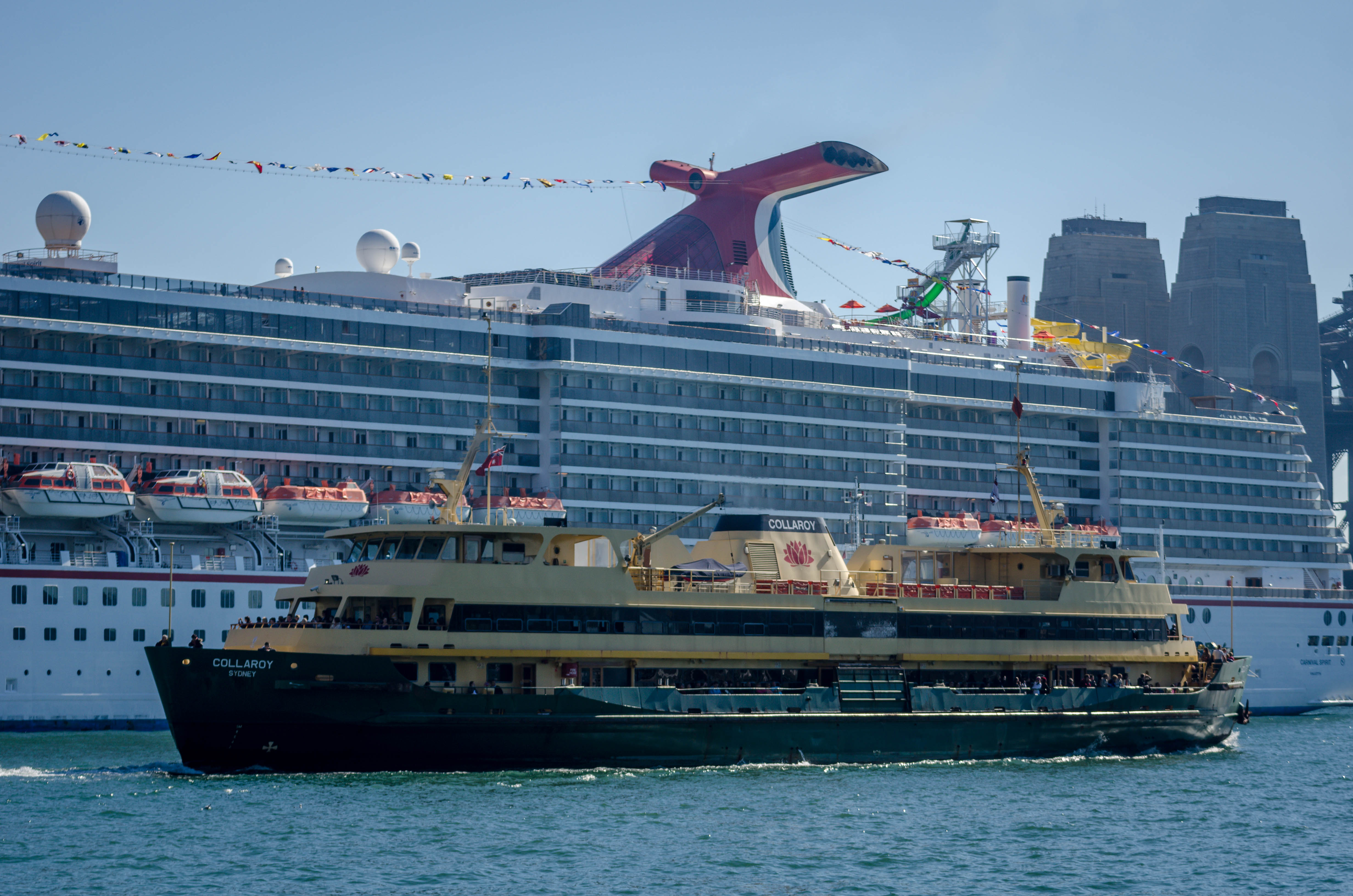 Sydney Ferry Collaroy arrives at Circular Quay